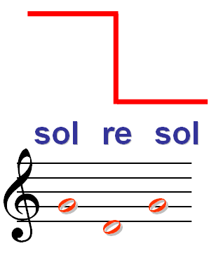 conlang Solresol